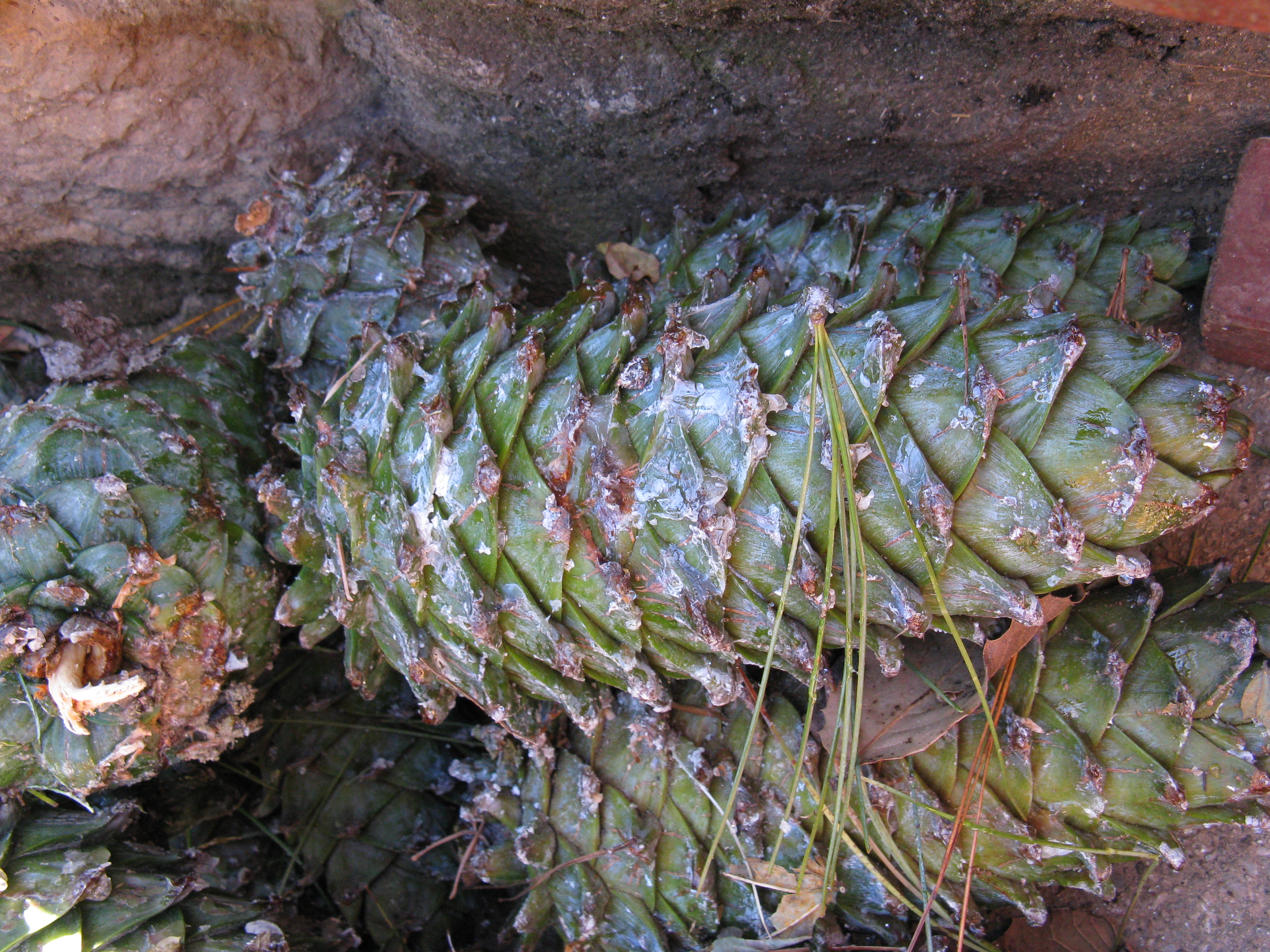 Pinus armandii cones, Lijiang, Yunnan.